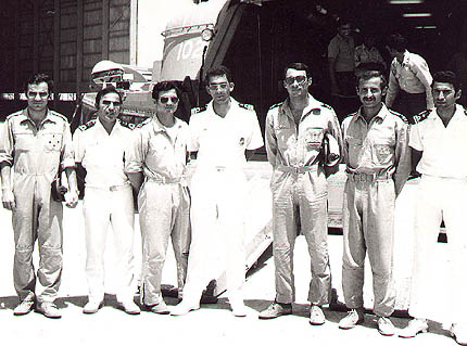 Prince Shahriar (center) and fellow IIN officers